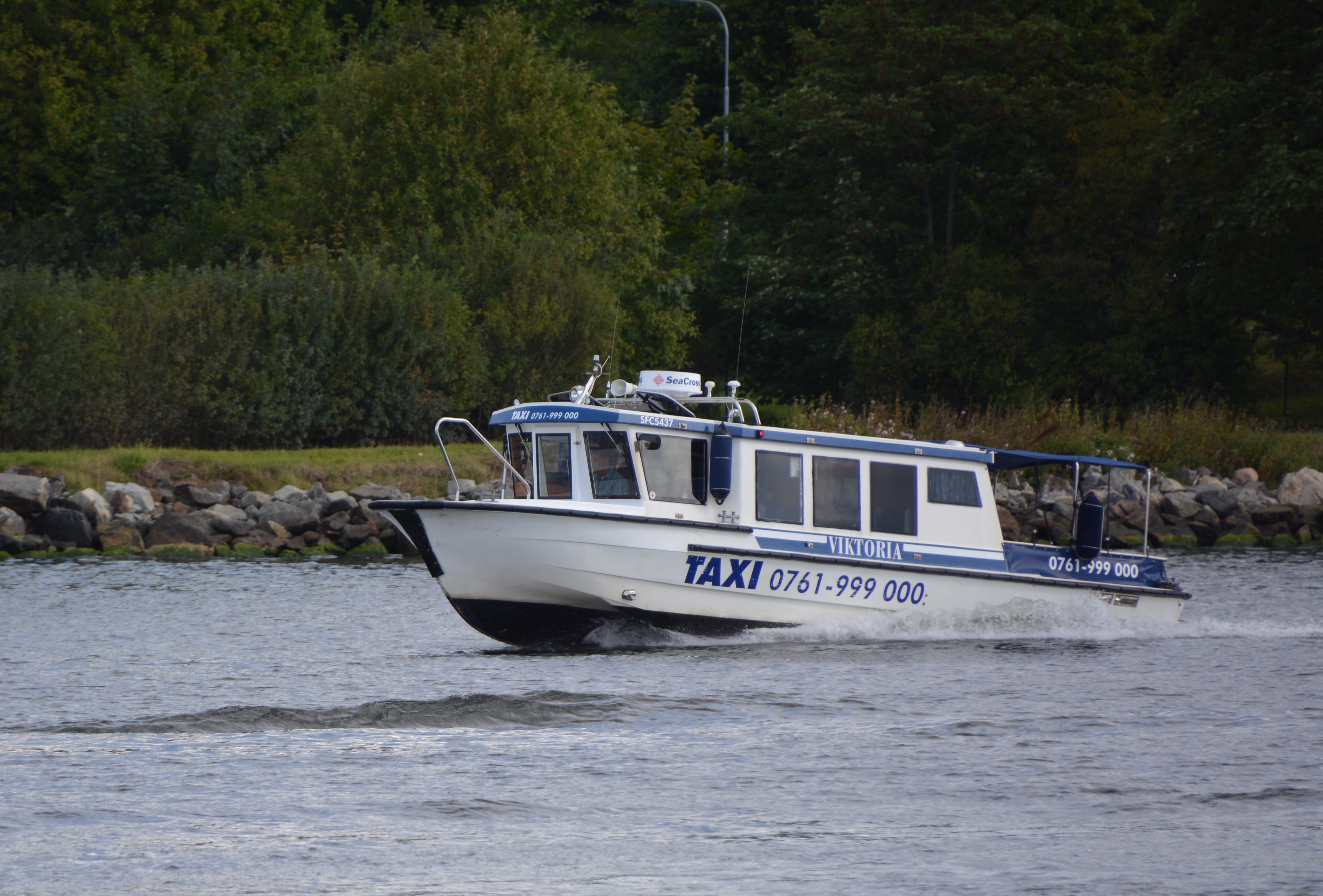 Taxibåt i Stockholm